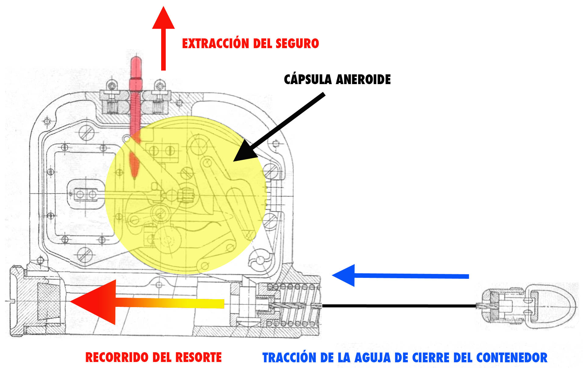 Automatic Activation Device, barometric activation